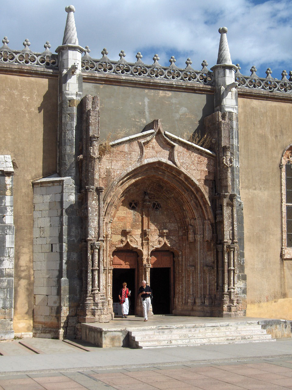 Portal of the Jesus Church (Igrejia de Jesus) in Setúbal, Portugal.